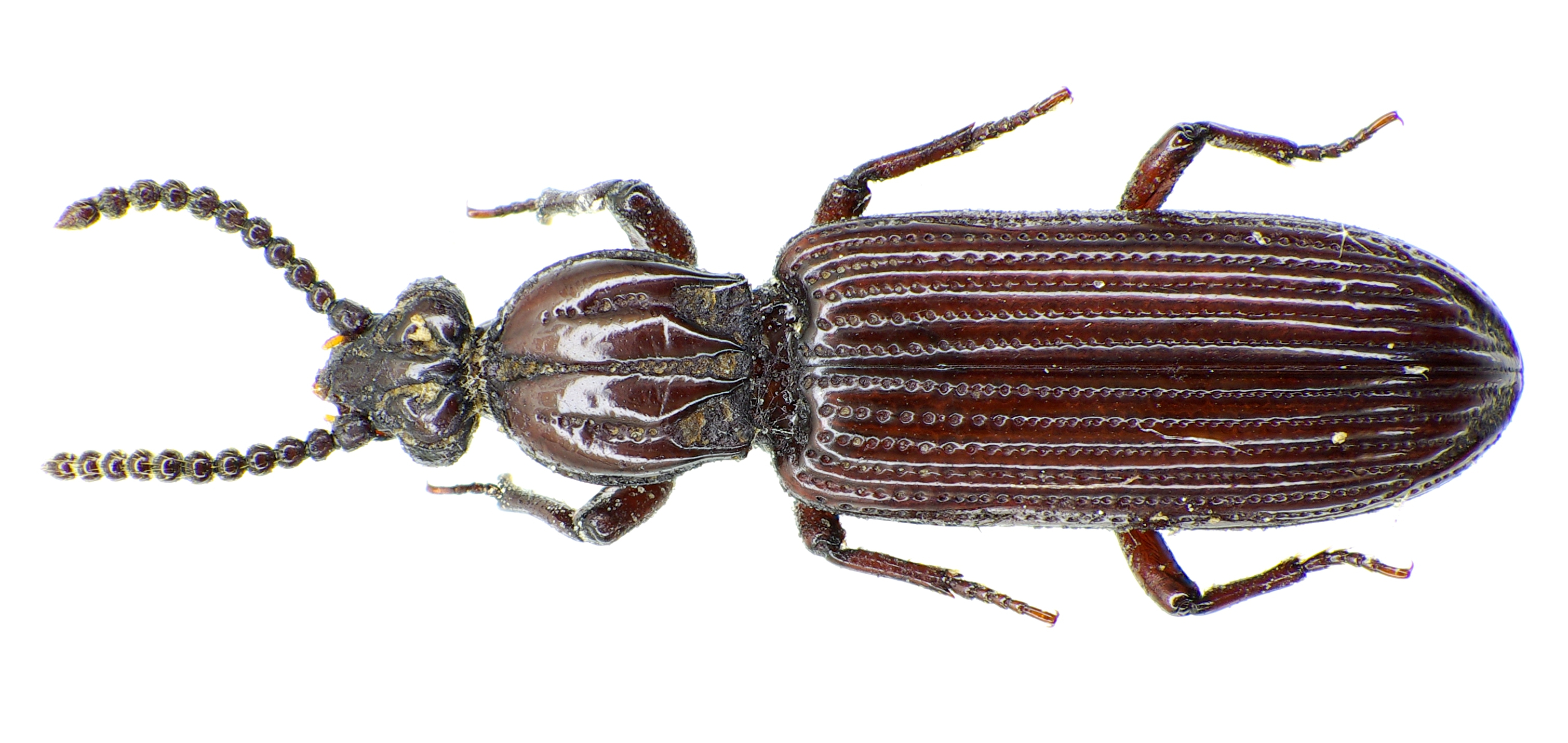 Rhysodes sulcatus from Hungary near Bélavár under bark of acacia at 2005-04-29